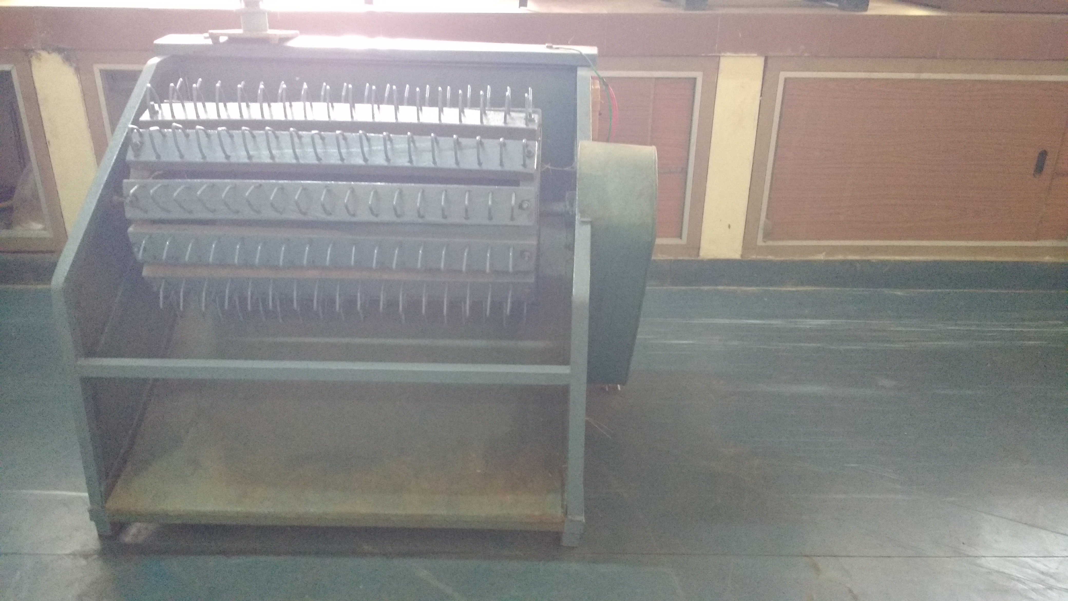 picture of paddy thresher.